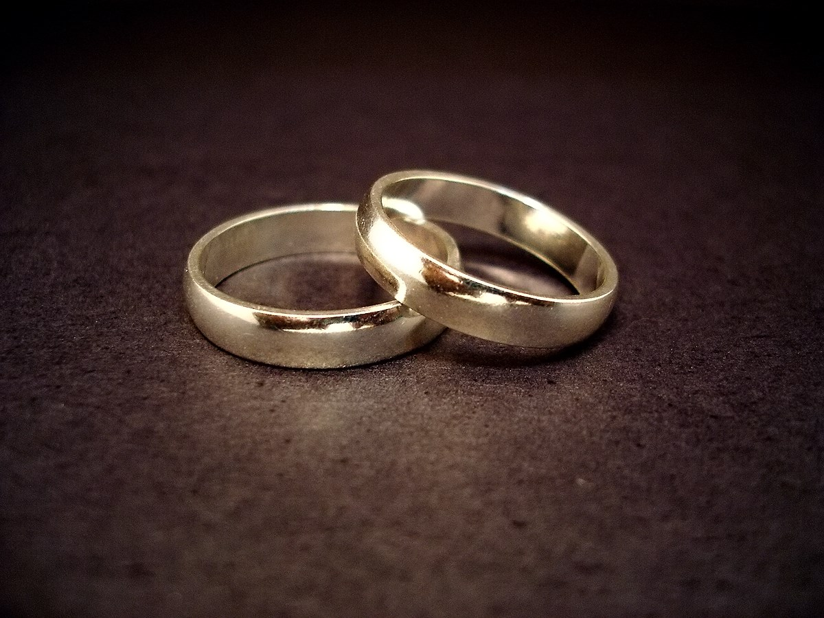 A couple of 14-carat gold wedding rings. Picture taken in Brazil, where 14-carat is the most common kind of gold used in jewelry.Anéis | Rings